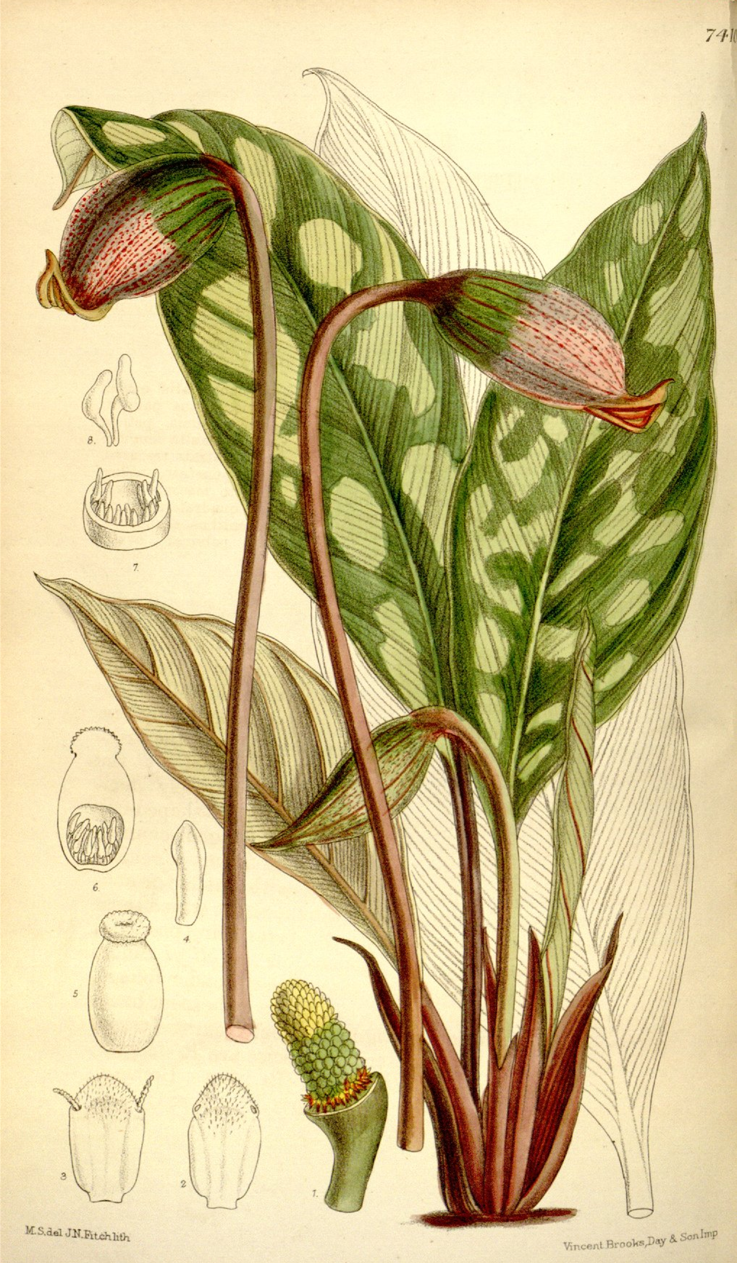 Piptospatha ridleyi drawing in Curtis's Botanical Magzine